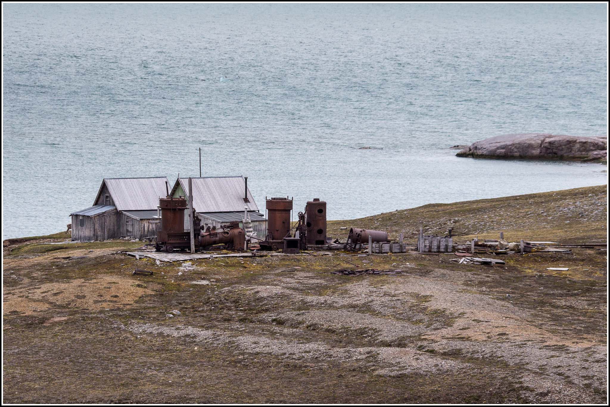 A selection of images from a recent trip to Svalbard. See the full set here eventually...